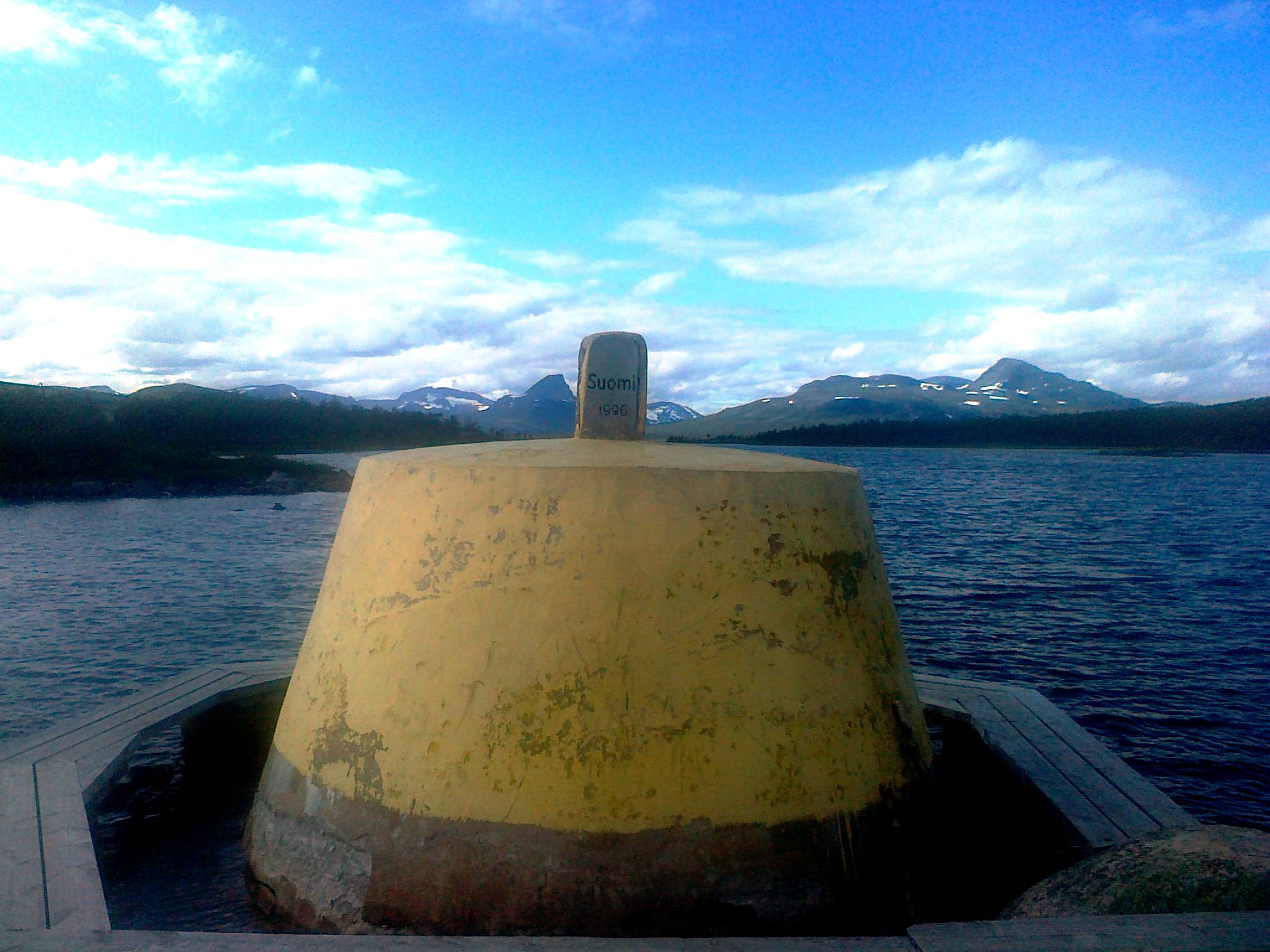 Close up of the cairn of the three countries